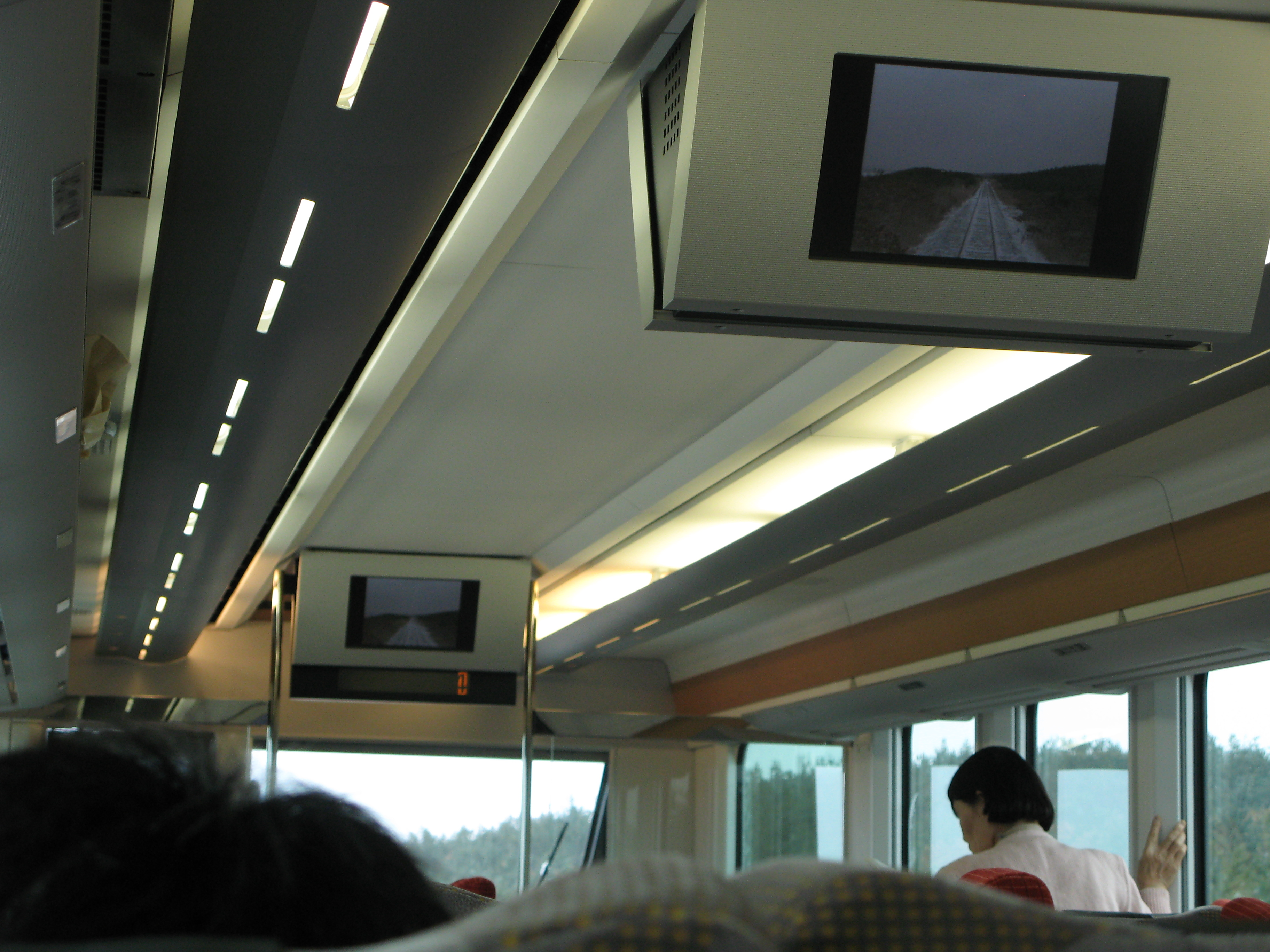 Interior view of JR East HB-E300 series hybrid DMU on a "Resort Asunaro Shimokita" service